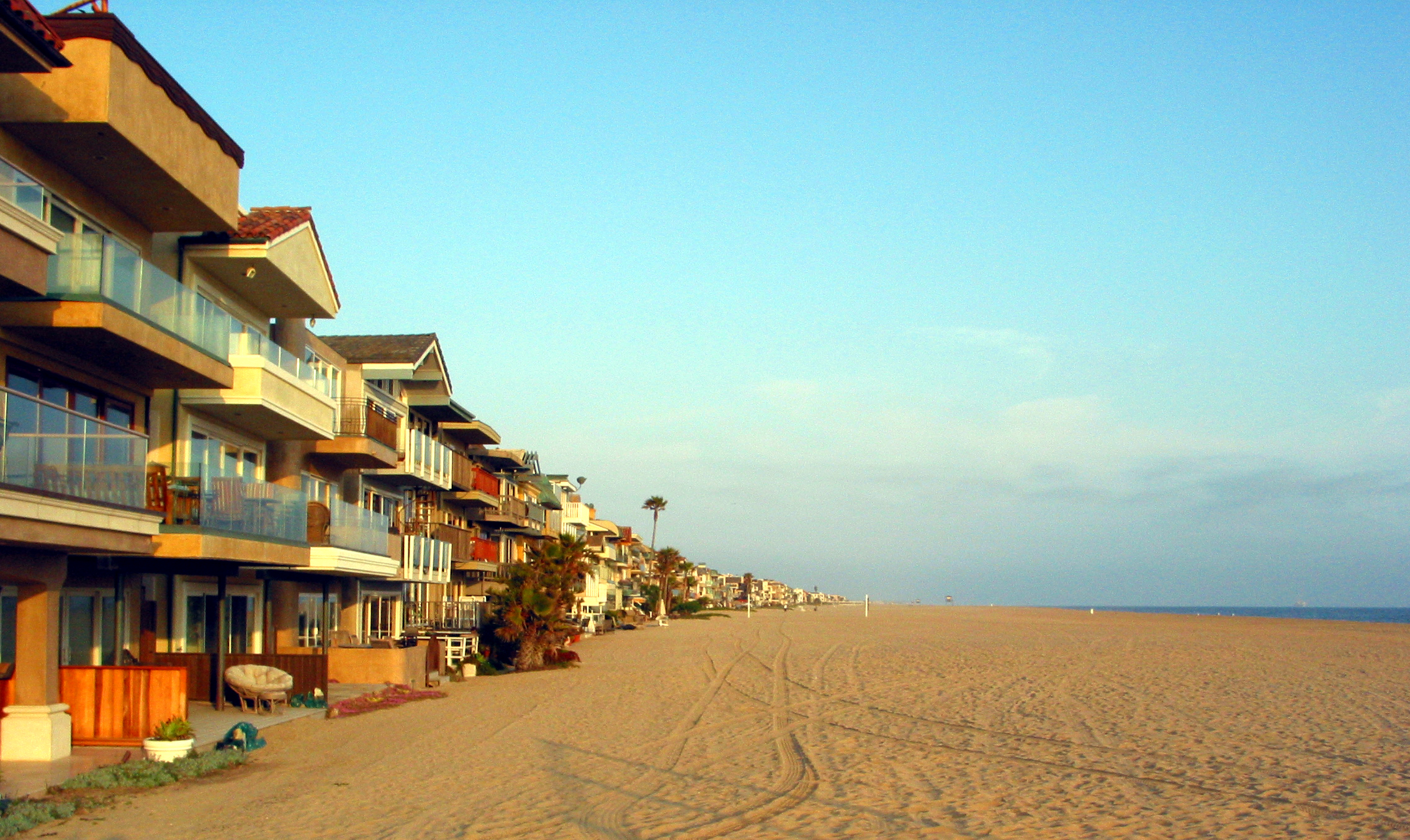 Surfside, CA looking to the south